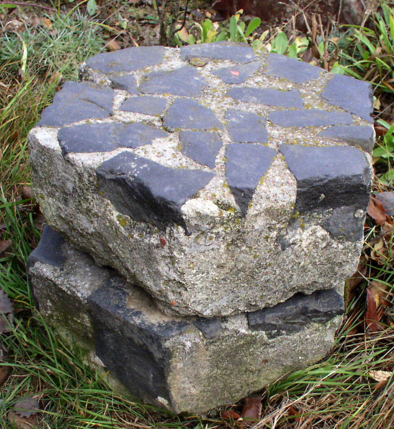 trylinka pavement, Belarus